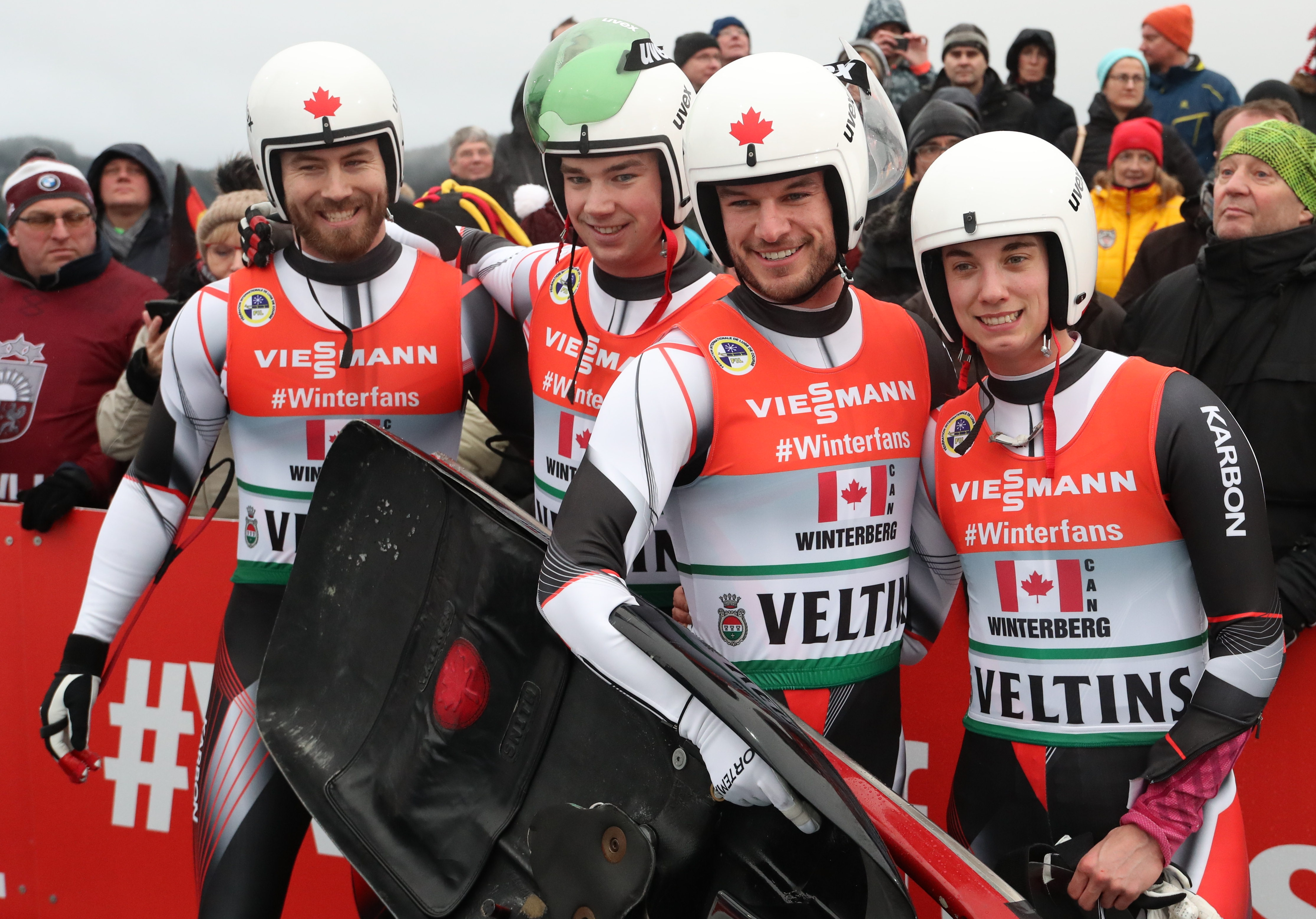 Team Relay at the FIL World Luge Championships 2019 in Winterberg